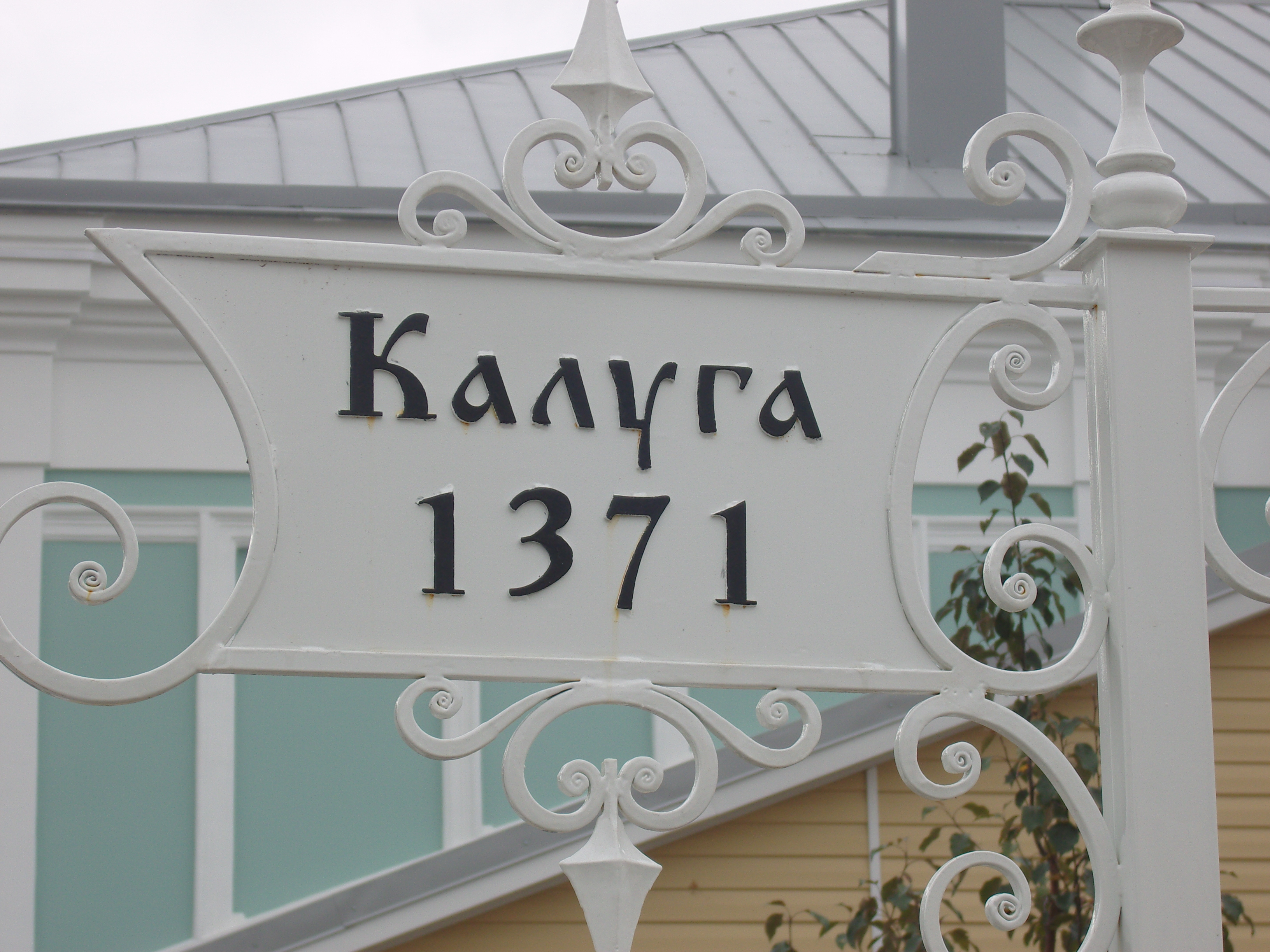 Kaluga. Terenin house.